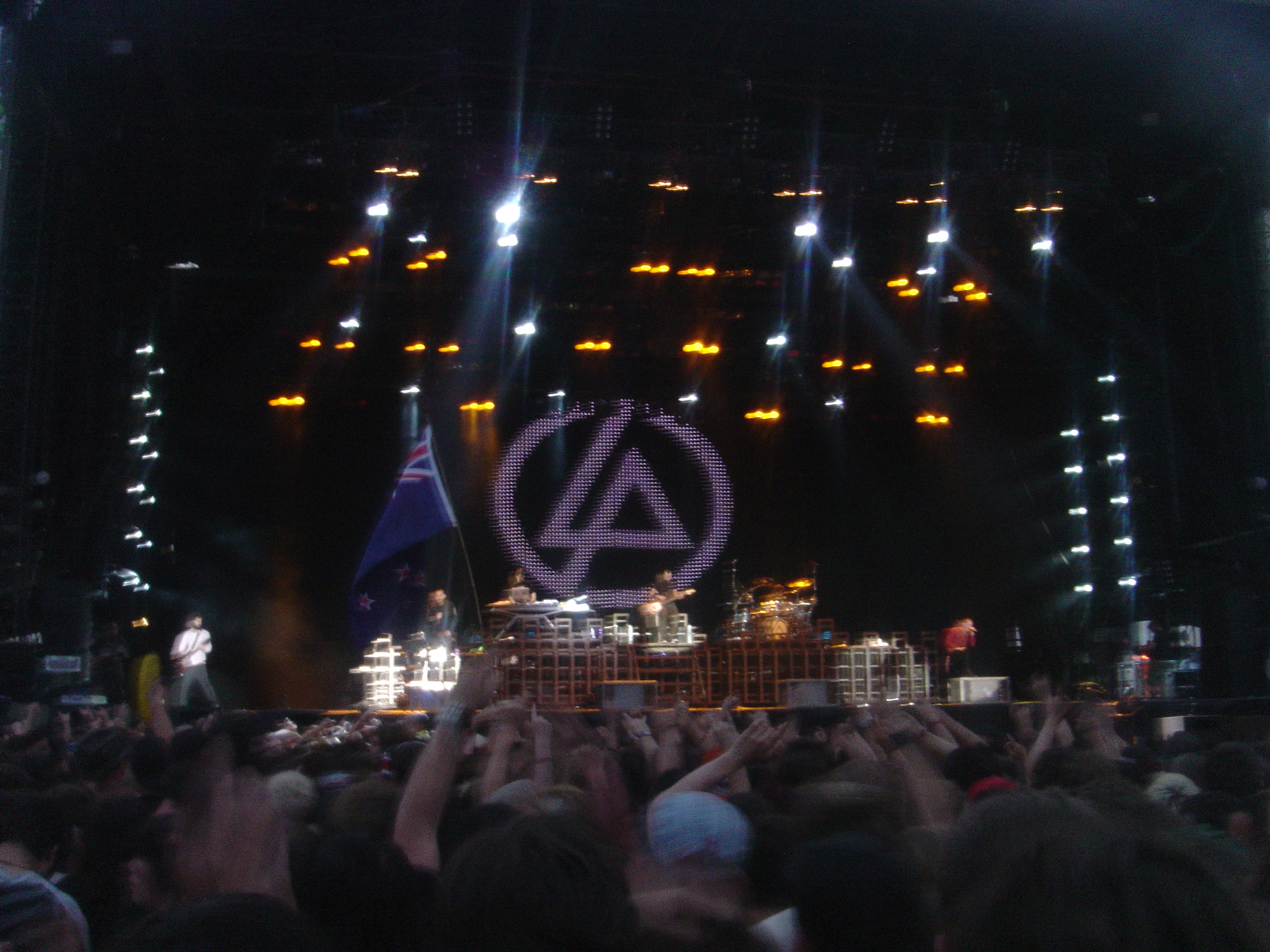 Linkin Park during a tour in 2007, in Melbourne, Australia